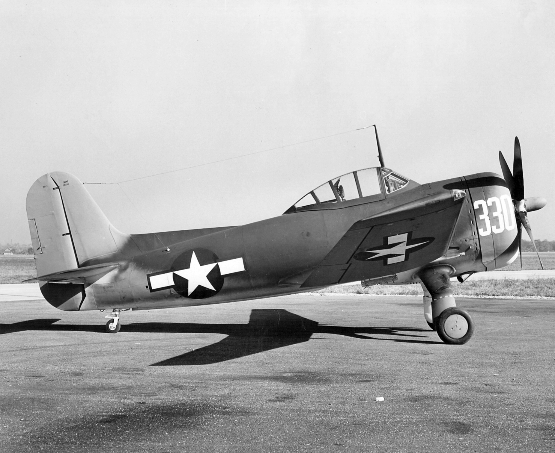 The U.S. Navy Curtiss SC-1 Seahawk (BuNo 35330) on wheels parked at an unidentified location.